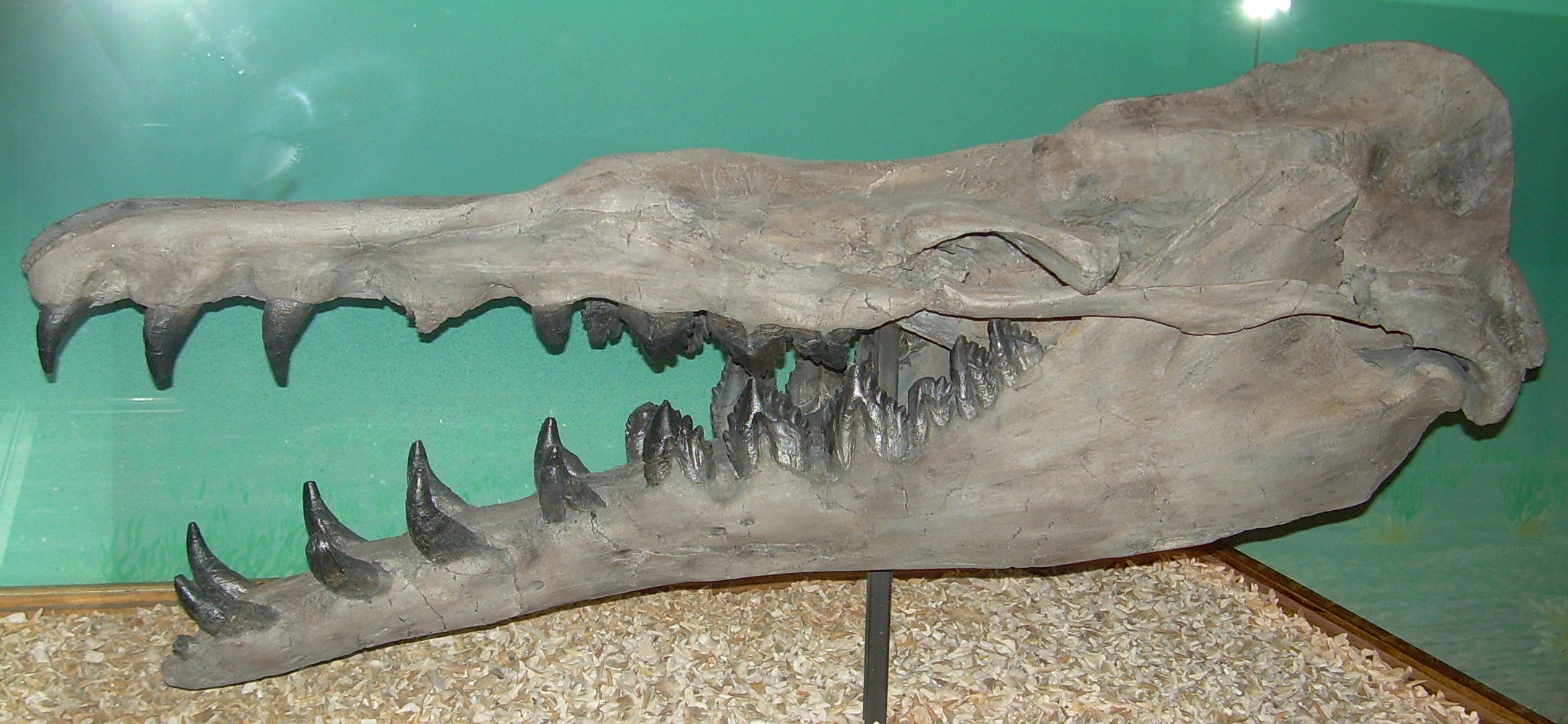 Photograph of a fossil cast of a Basilosaurus cetoides skull taken at the North American Museum of Ancient Life.